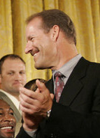 Pittsburgh Steelers head coach Bill Cowher at the White House- Cropped from original image.